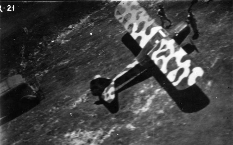 Camouflagued Auster Autocraft of the Israeli Air Force Galilee Squadron